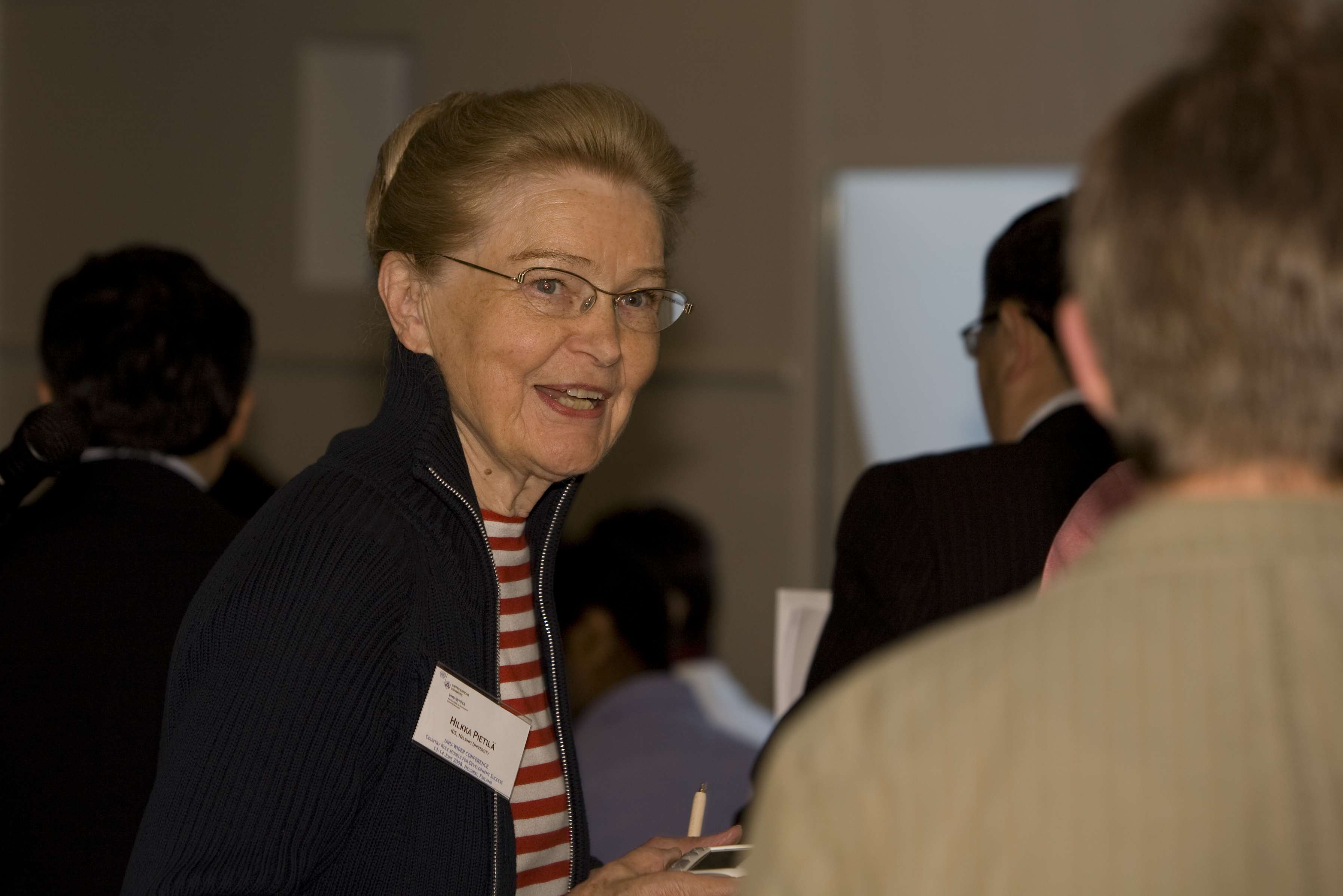 Hilkka Pietilä, Researcher, University of Helsinki.